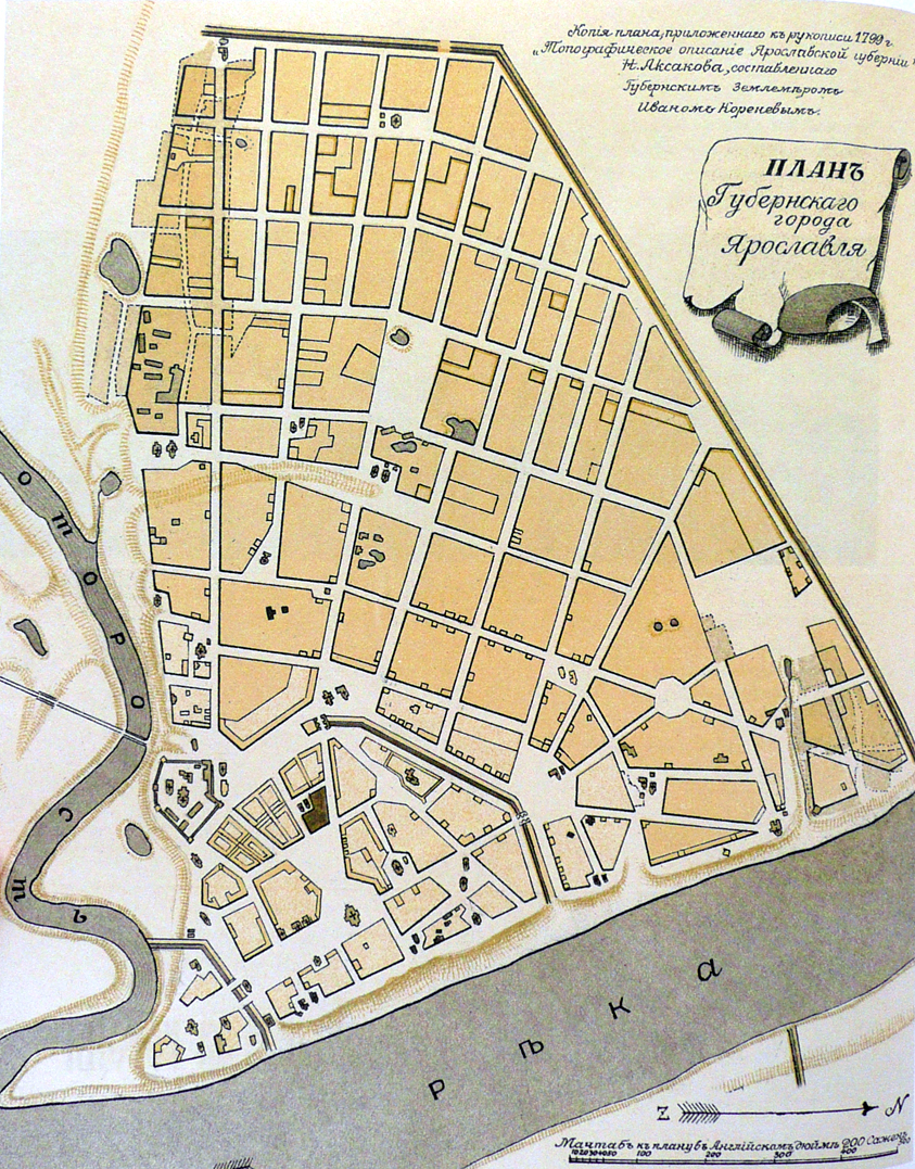 Plan of Yaroslavl in 1799